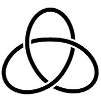 author: User:Rybu source: this is the mirror image of Image: TrefoilKnot-01.png